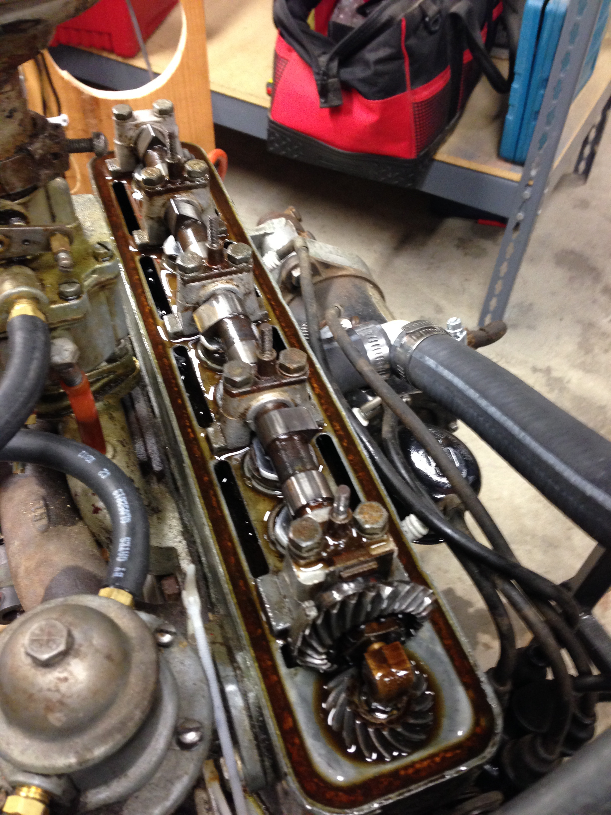 A 1948 Crosley COpper BRAzed (COBRA) engine with the cam cover removed. The single overhead camshaft (SOHC) is visible, and the tower shaft gear that drives the cam at the front of the engine is in the foreground.